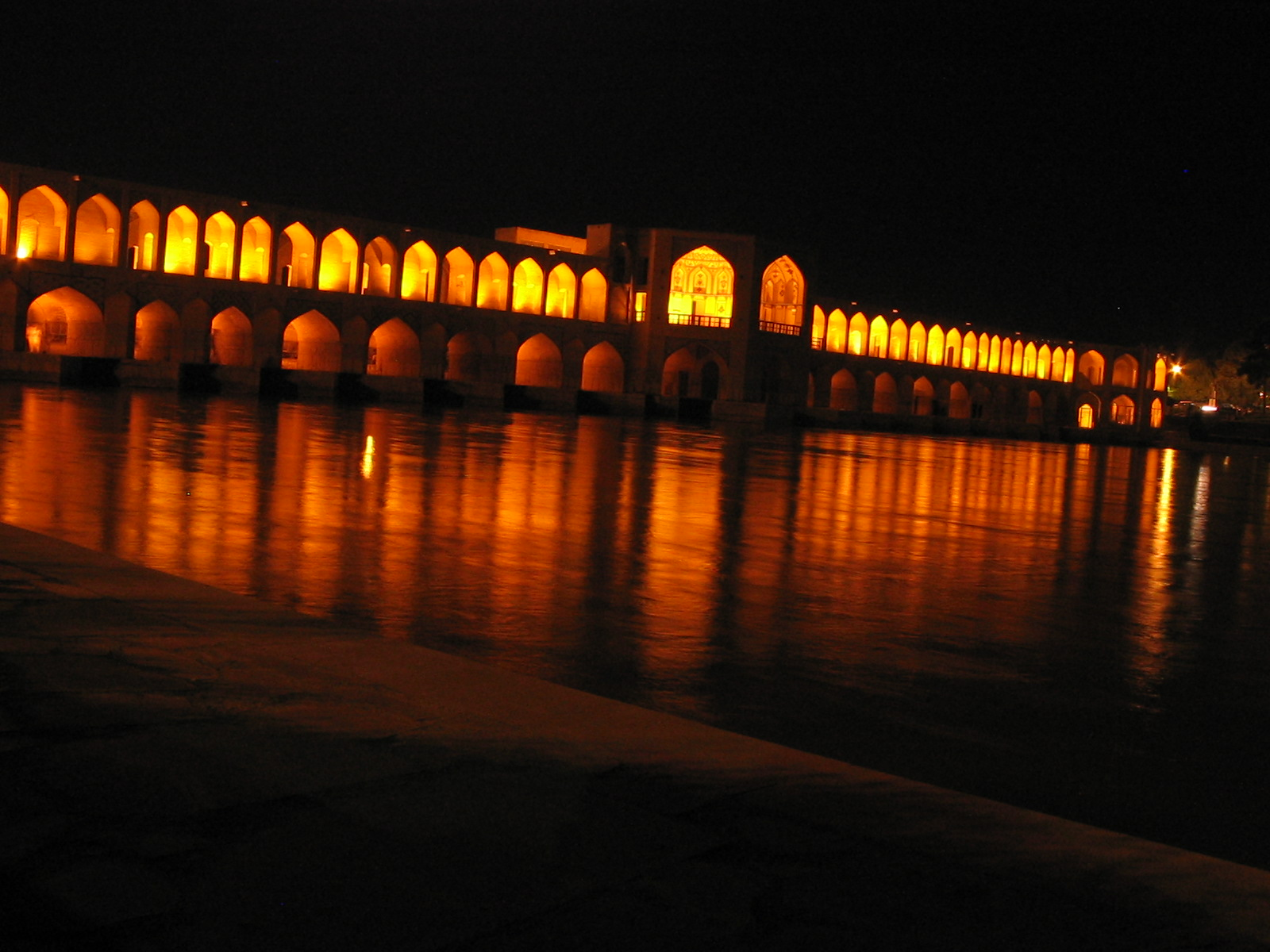 khajoo Bridge - Esfahan